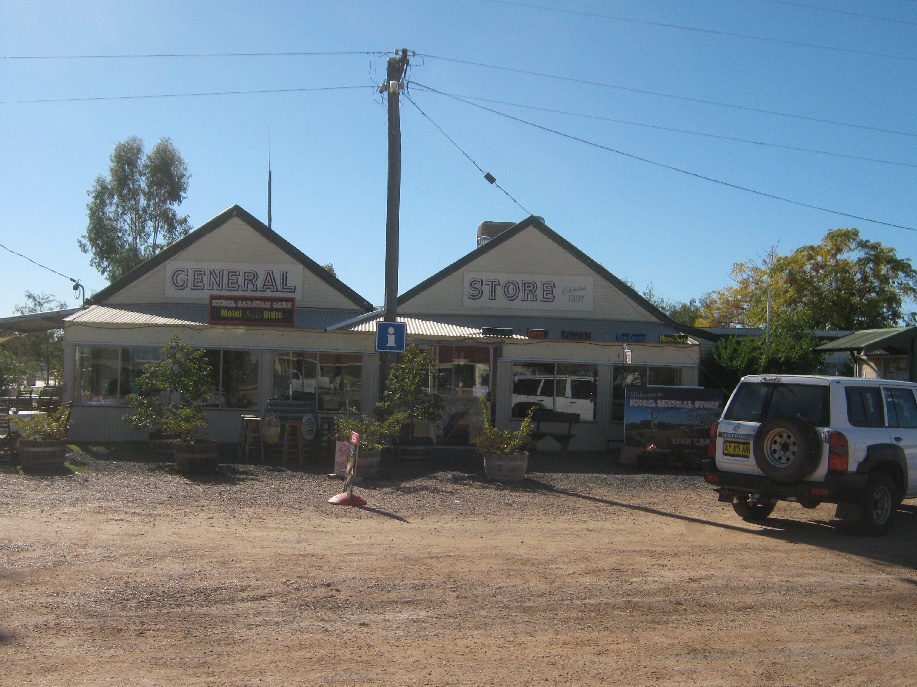 Hebel General Store, 2011, Driving from Nindigully, NSW to Lightning Ridge, NSW